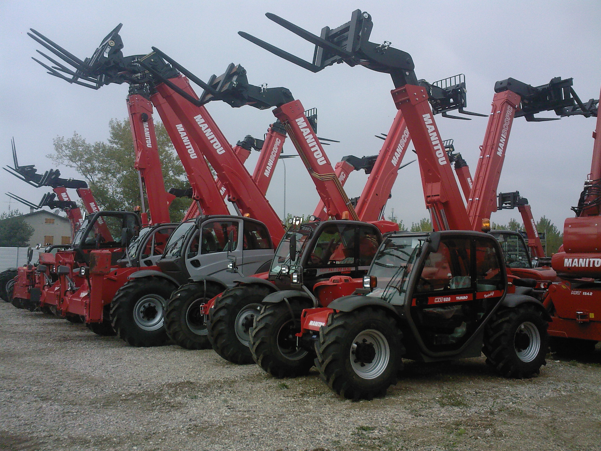 Several Manitou telehandlers, a Manitou MVT 628 Turbo in the foreground